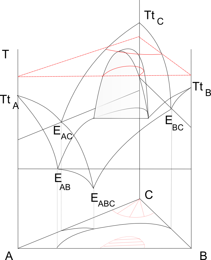 Phase diagrams/ ABC equilibrium 2